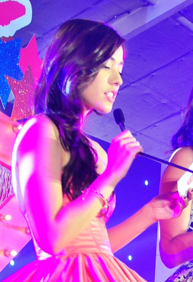 Filipina actress Lauren Young at the at the 2013 Candy Style Awards